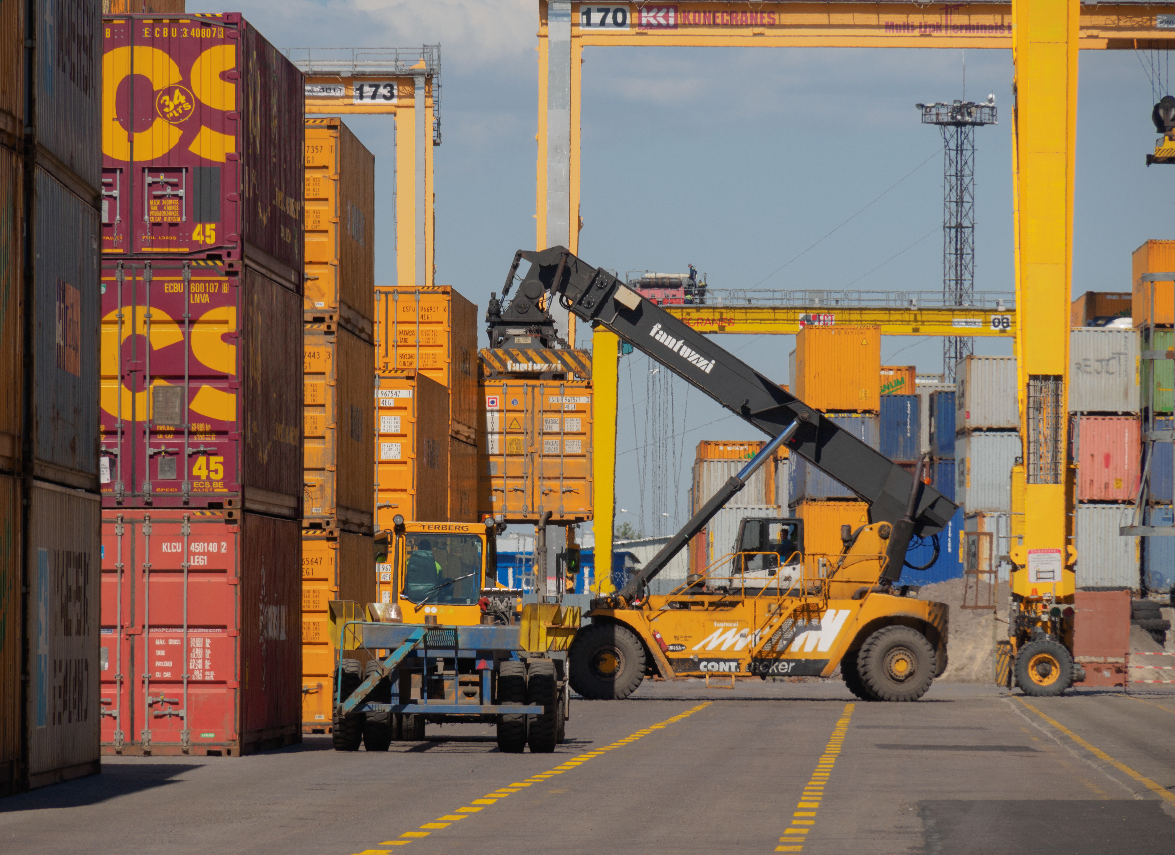 Moby Dik terminal